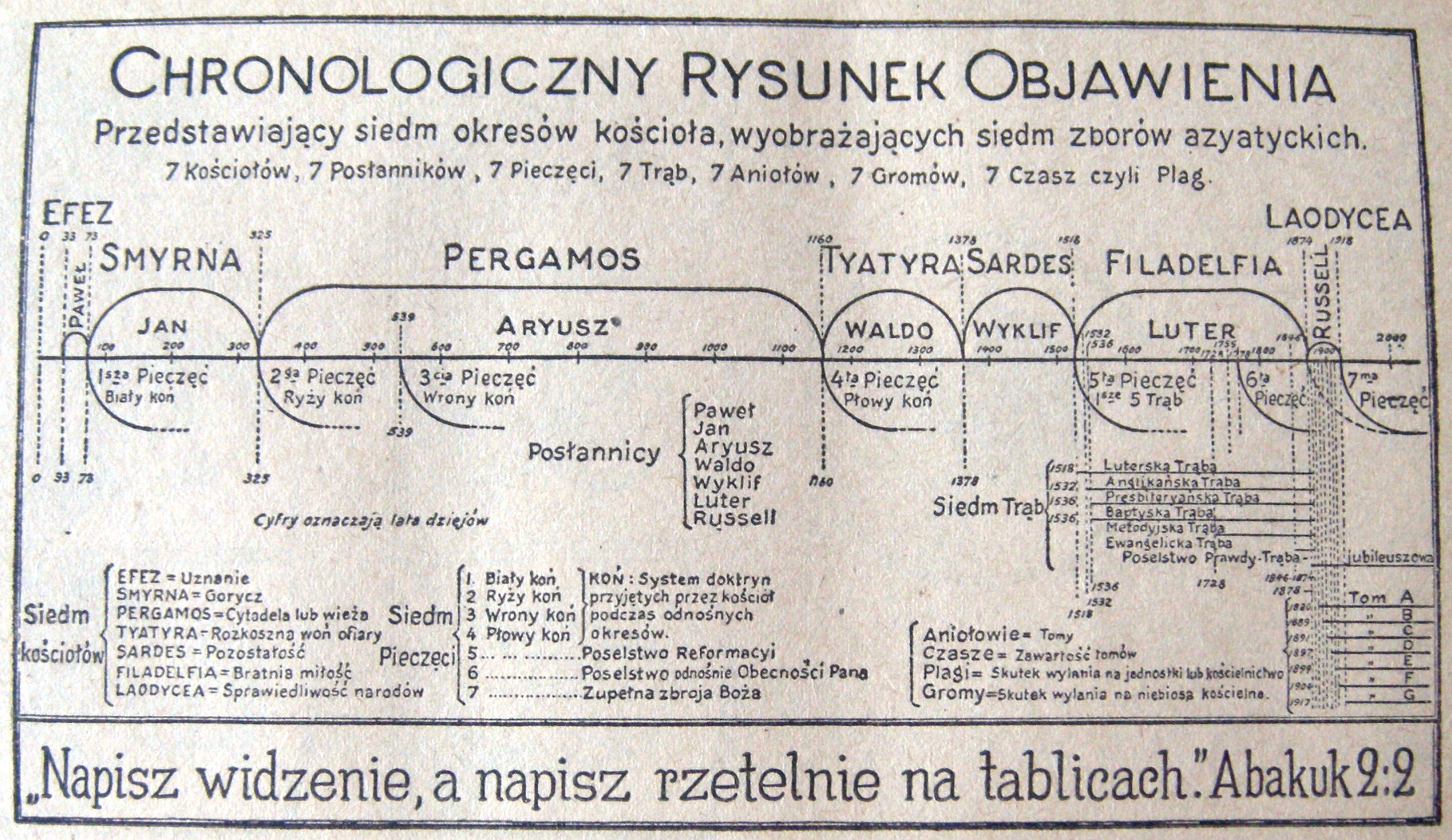 The Finished Mystery